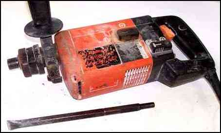 Photograph by bill Bradley of one of his own tools billbeee 07:37, 5 March 2007 (UTC)